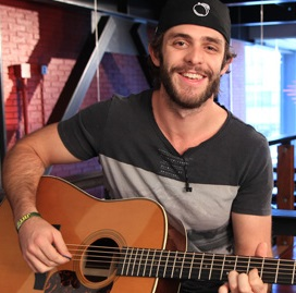 Thomas Rhett interview on Walmart Soundcheck 2013